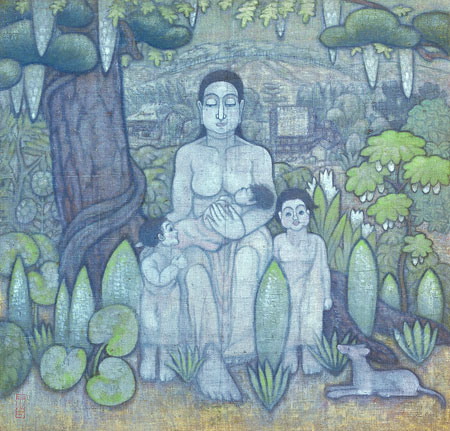 Nest of Compassion (or Mercy)